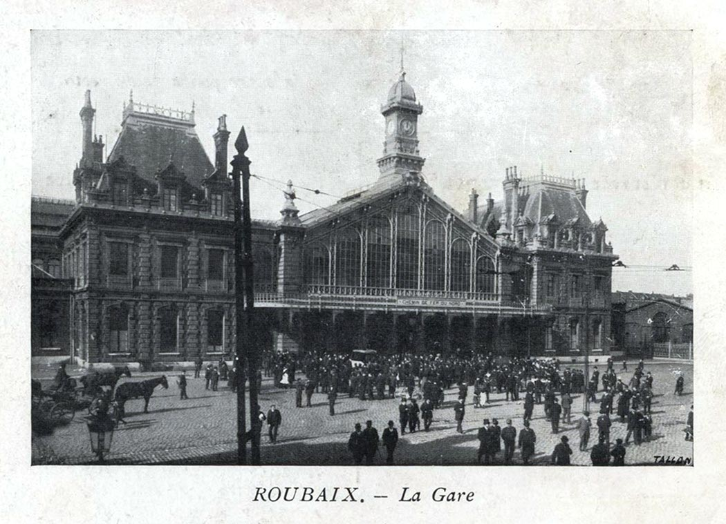 Roubaix Train Station in 1906